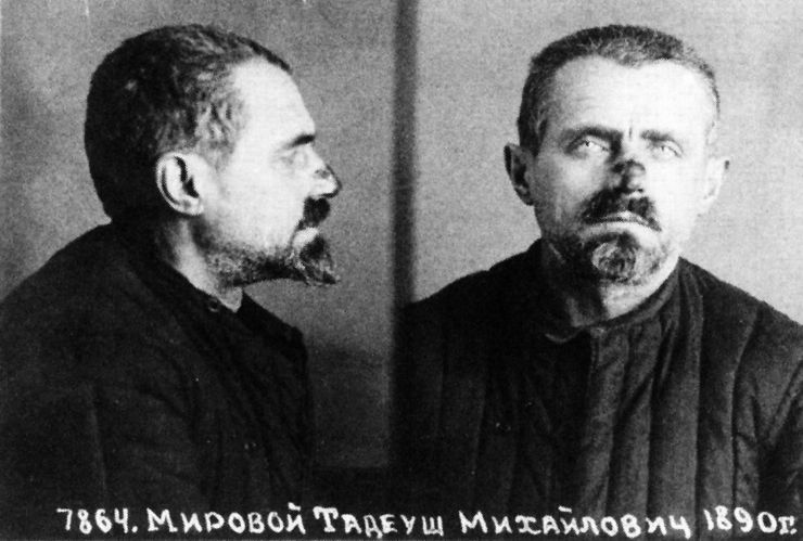 Michał Karaszewicz-Tokarzewski (1893-1964) – General of the Polish Army. Here after arrest by Soviet NKVD (1940), under nickname „Tadeusz Mirovyi”